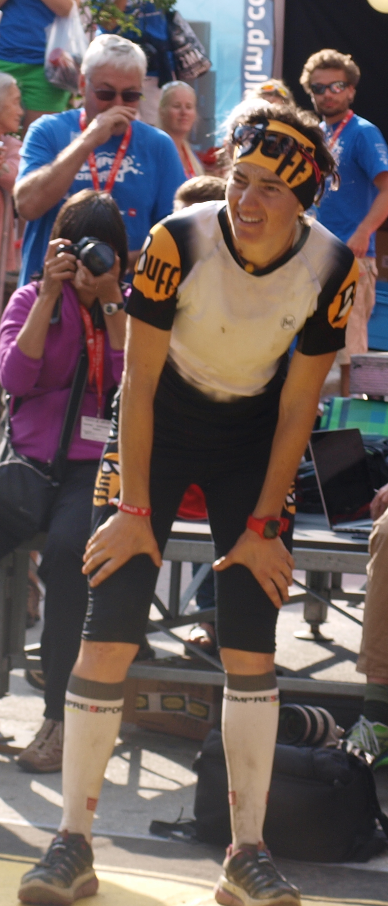 Emma Roca at 2013's Ultra-Trail du Mont Blanc finish line